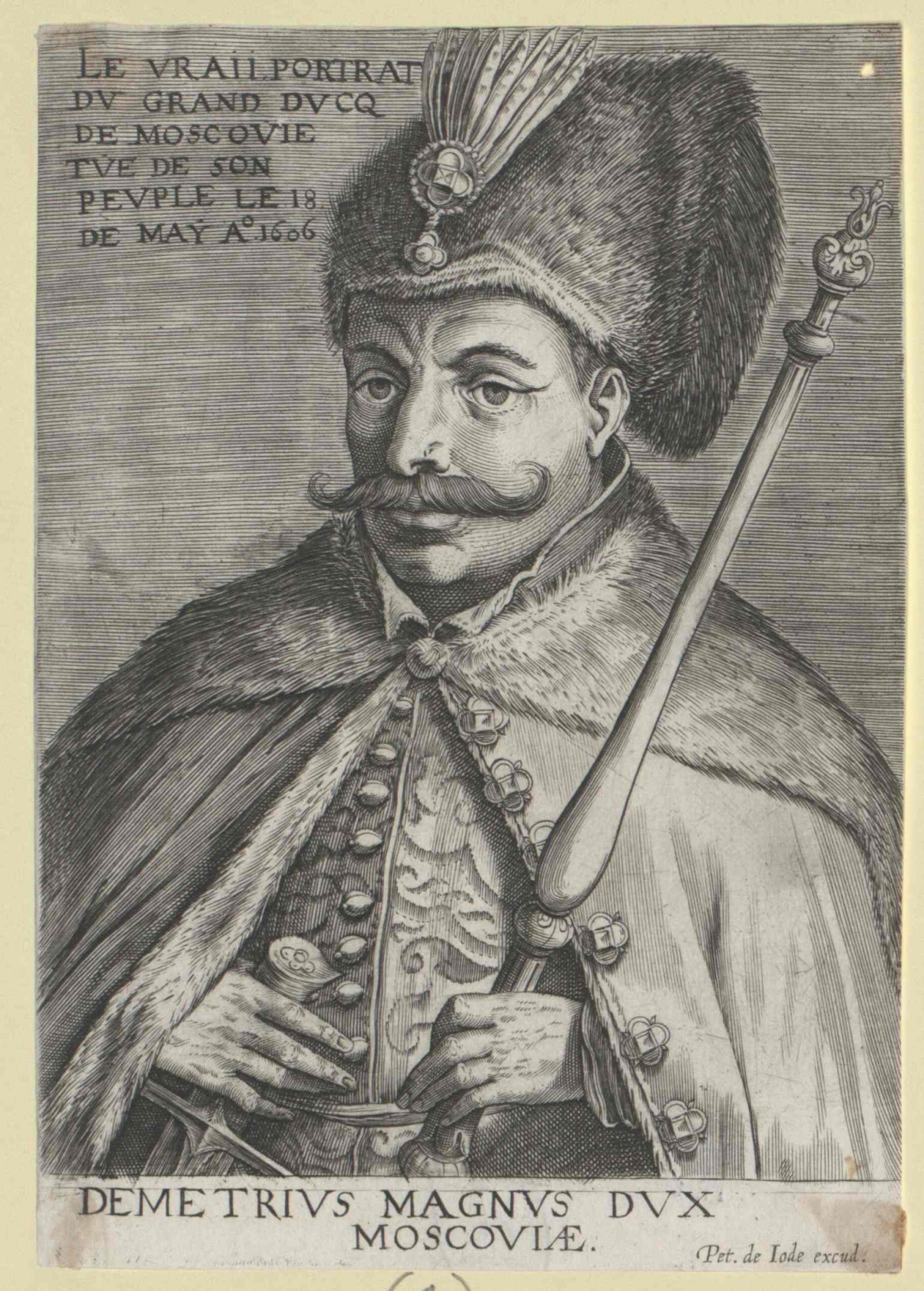 False Dmitriy I (portrait with moustache)